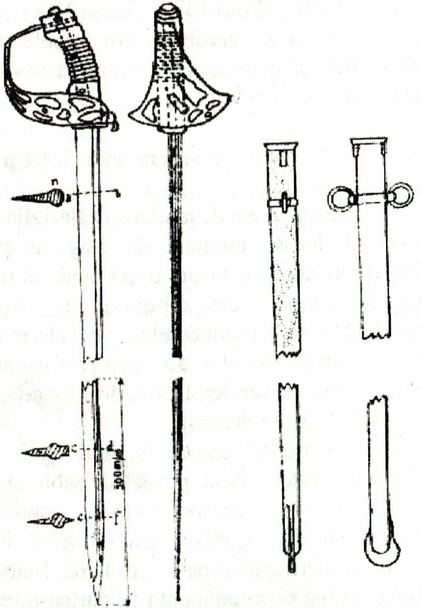 Sword for the soldiers of Romanian Cavalry Corps, model 1906